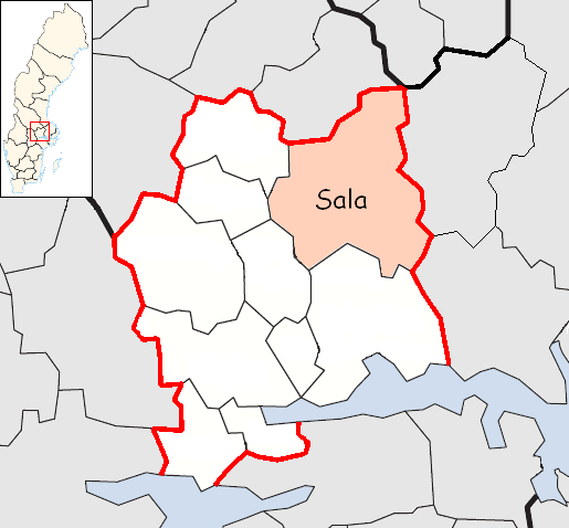 Sala Municipality in Västmanland County Designed by me. Mere outlines are a PD source from